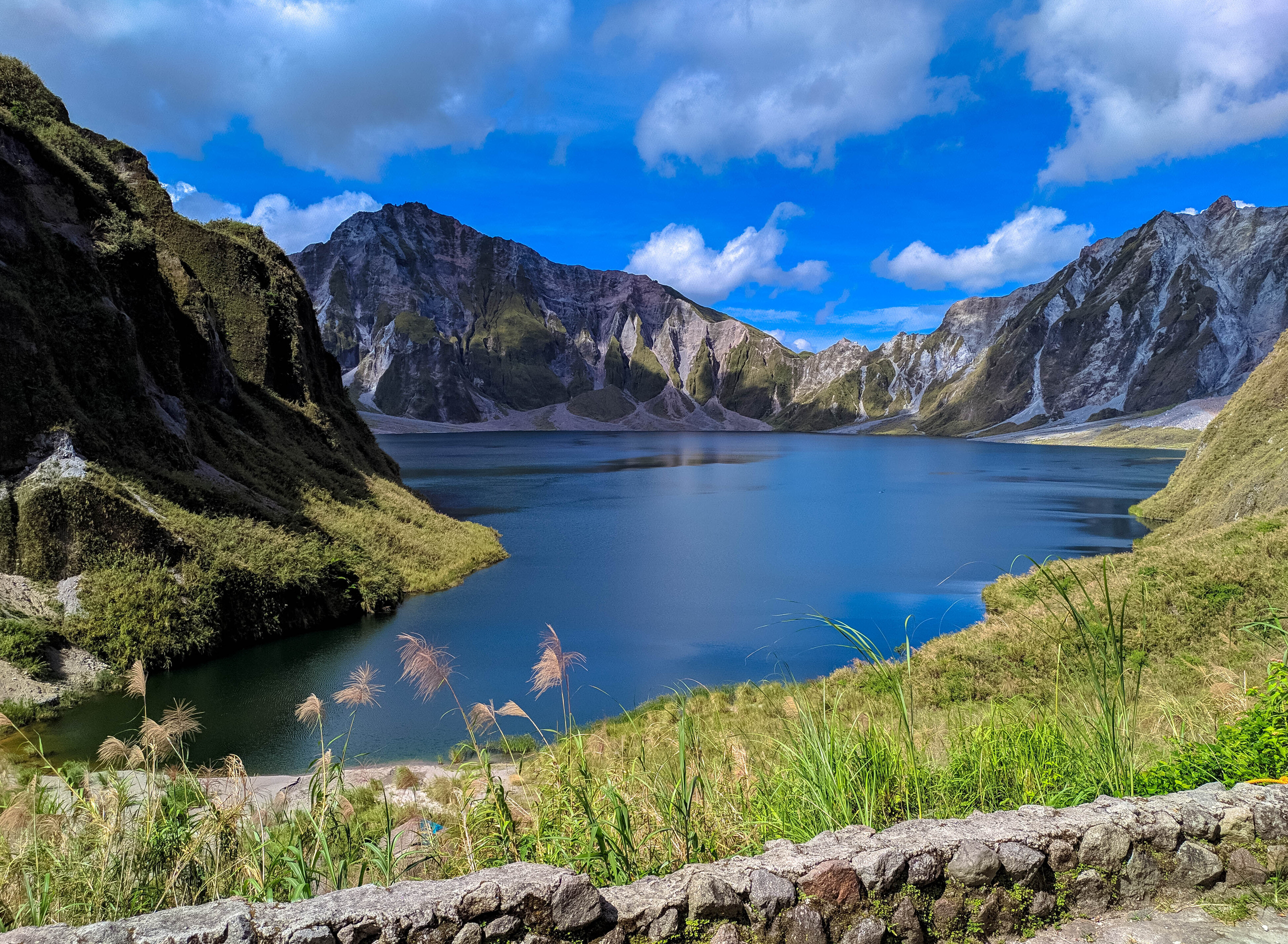 Mt. Pinatubo is an active stratovolcano in the Zambales Mountains, located on the tripoint boundary of the Philippine provinces of Zambales, Tarlac and Pampanga, all in Central Luzon on the northern island of Luzon. It was covered with dense forests which supported a population of several thousand indigenous Aetas.